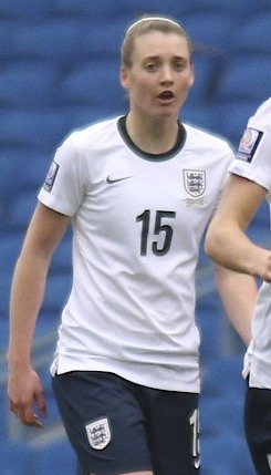 Jade Moore (15) and Lucy Bronze (6) playing for England